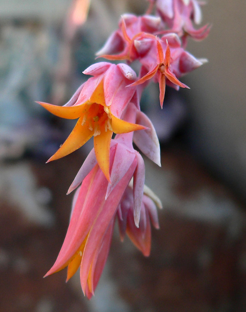 Echeveria runyonii at the University of California Botanical Garden, Berkeley, California